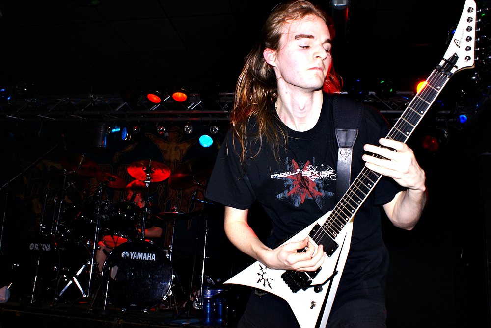 live in Munich 2007